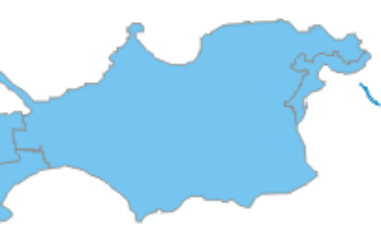 Kerch peninsula